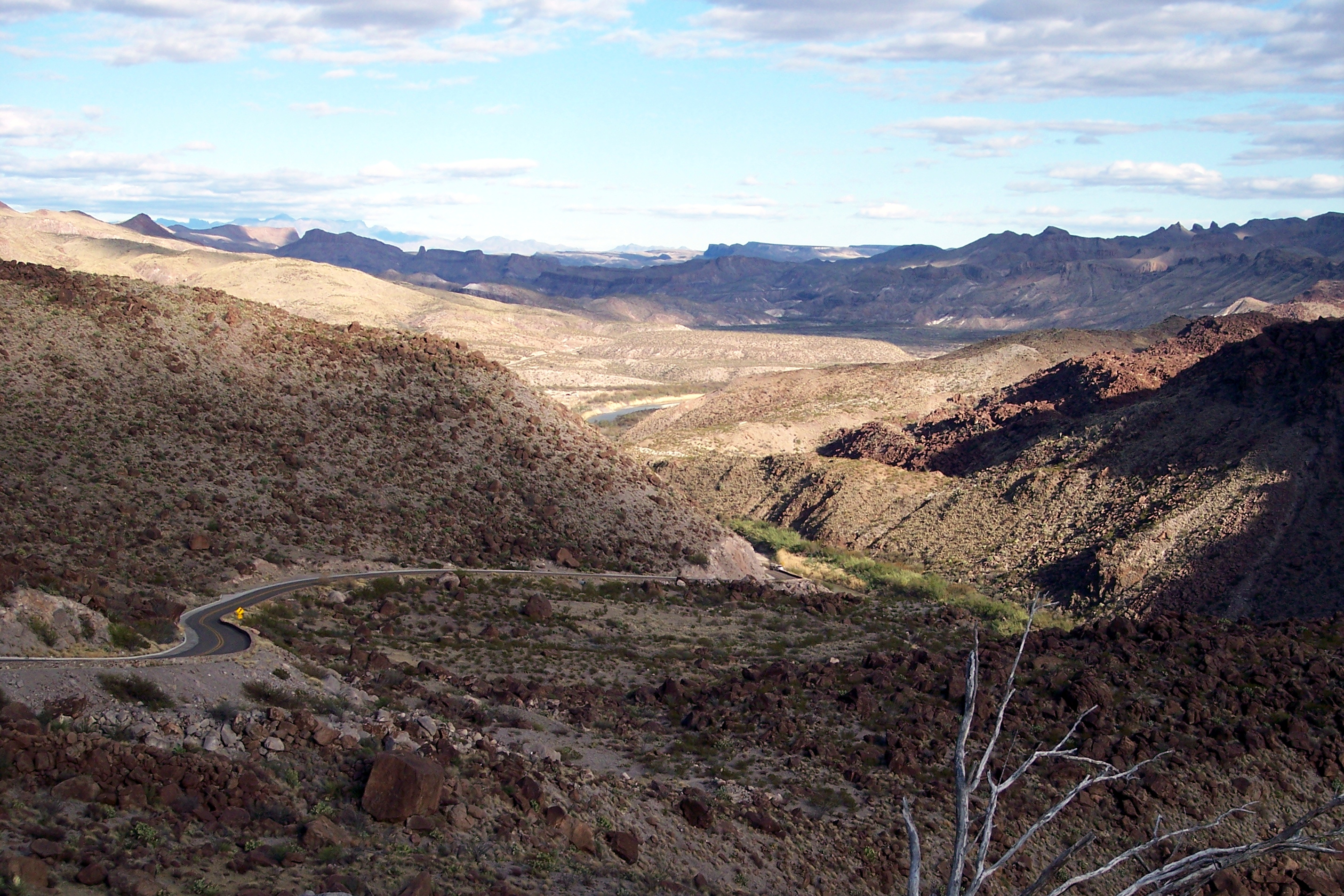 Big Bend National Park landscape including road and Rio Grande river, near Santa Elena Canyon, looking east.